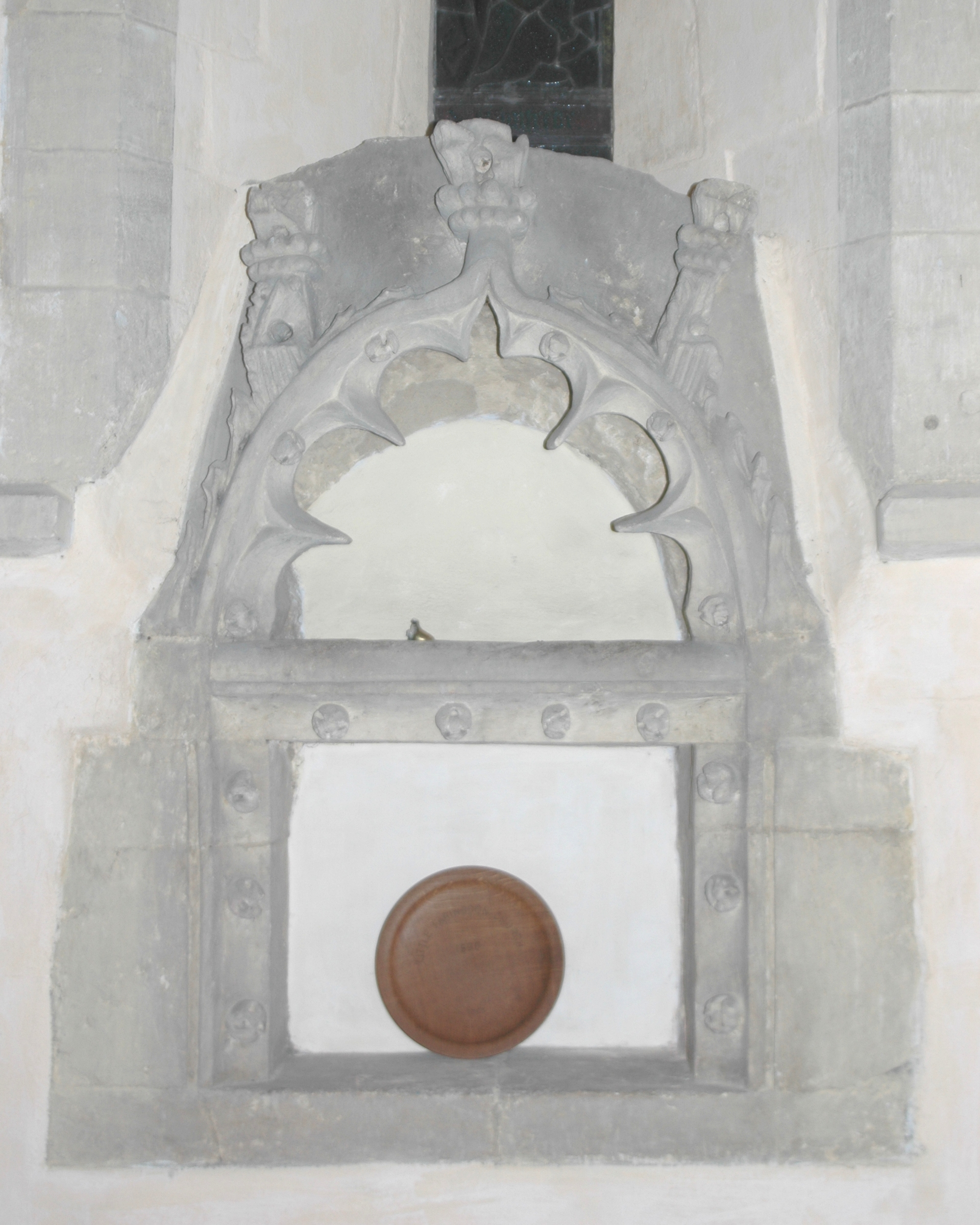 Church of England parish church of St Margaret, Little Faringdon, Oxfordshire: cusped and crocketed Perpendicular Gothic piscina